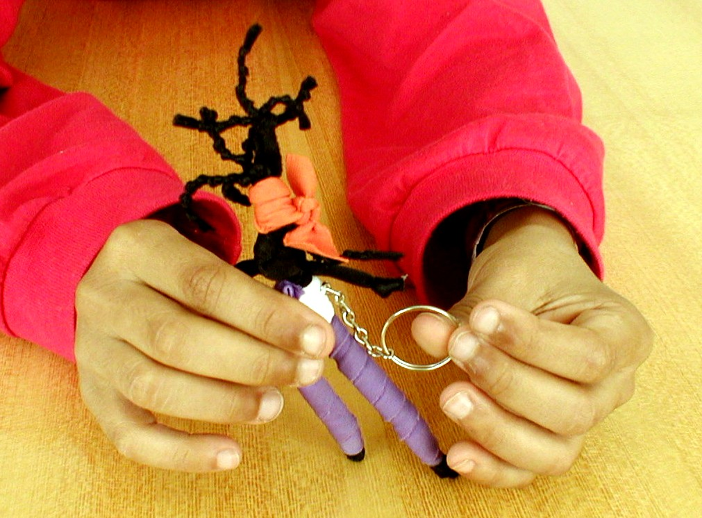 Abayomi. African handicraft doll in Rafael's, my son, hands.